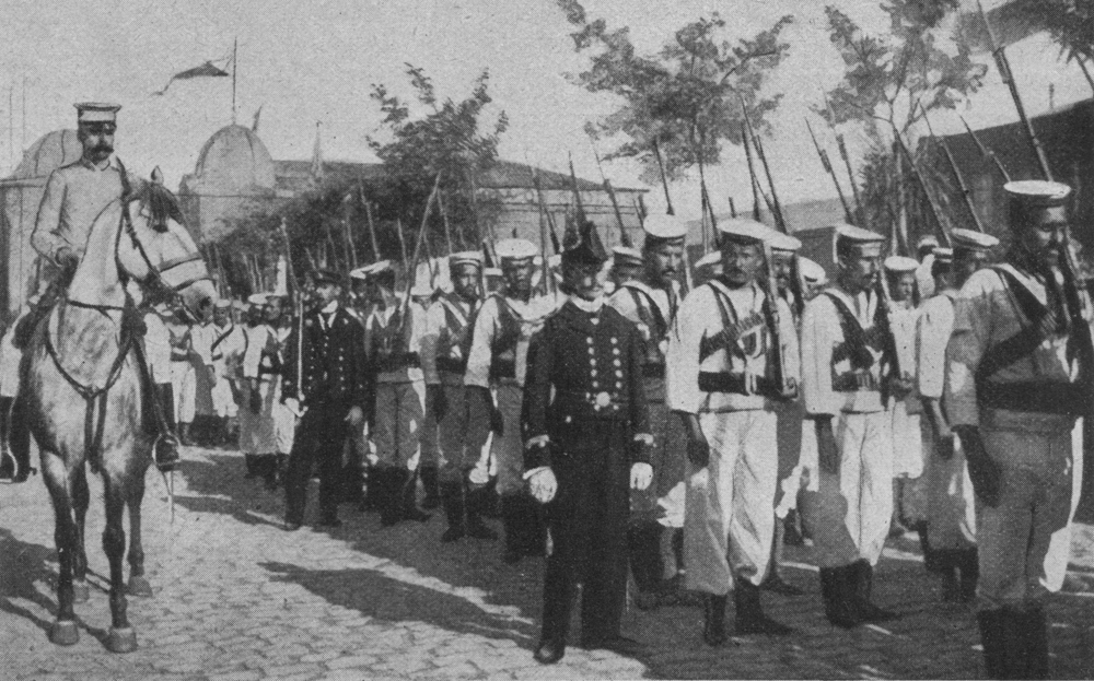 Chilean infantry about 1901.